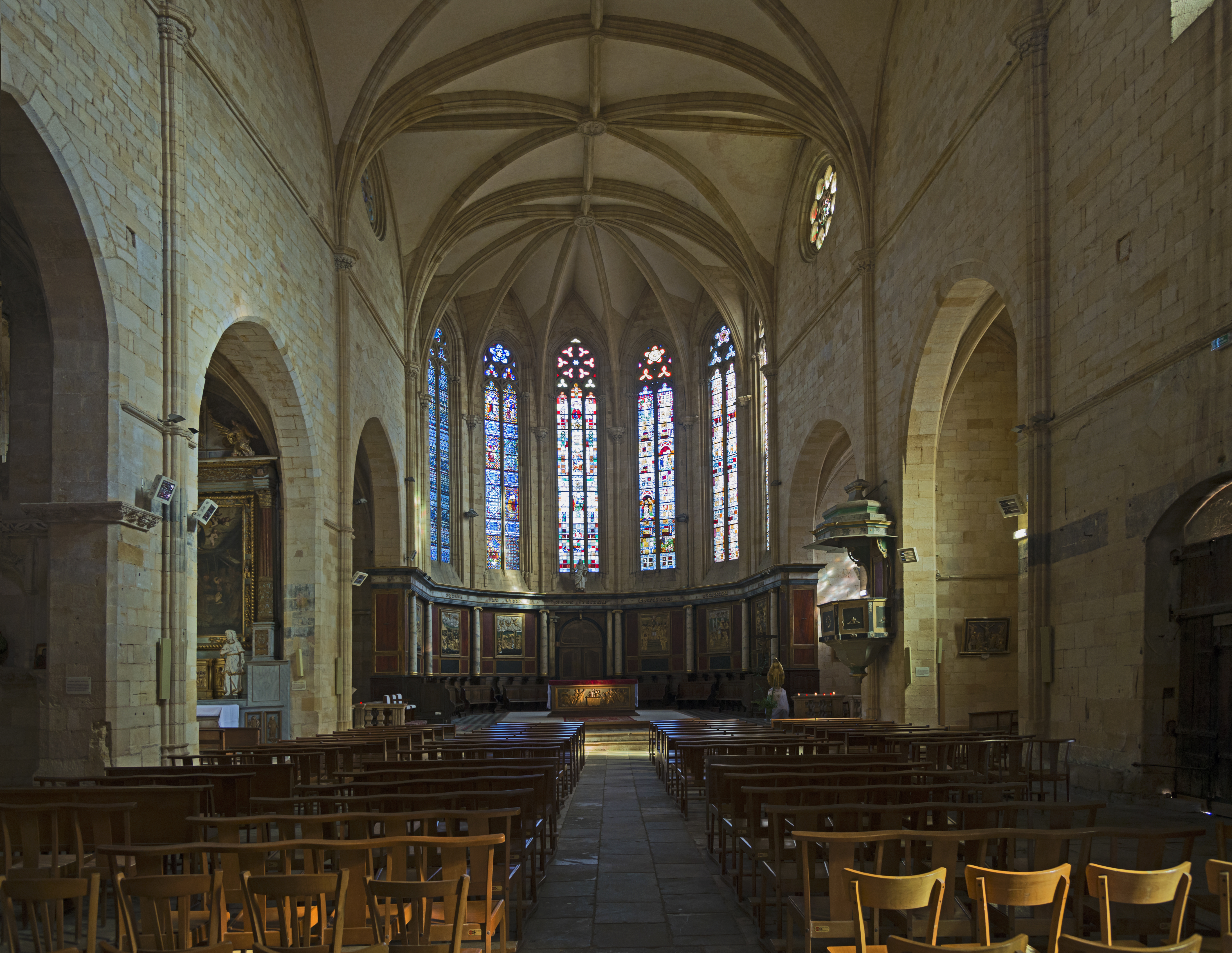 Chuch St.Peter in Gourdon, Lot, France. Interior.